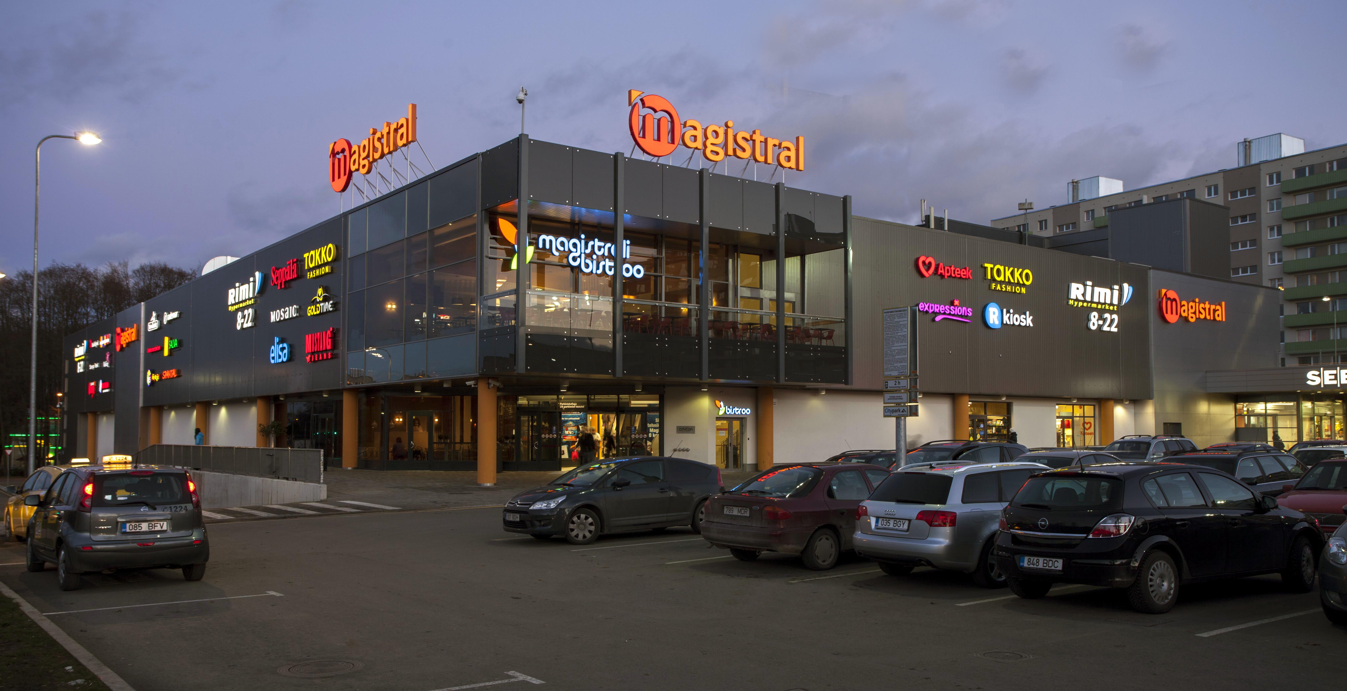 Photo of Magistral shopping centre in Tallinn